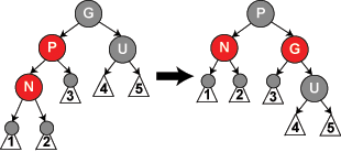 Produced by Derrick Coetzee in Illustrator and Photoshop for the red-black tree page. Explains insertion of a node when its parent is red, its uncle is black, and it is its parent's left child (case 5). Size reduced with pngcrush.